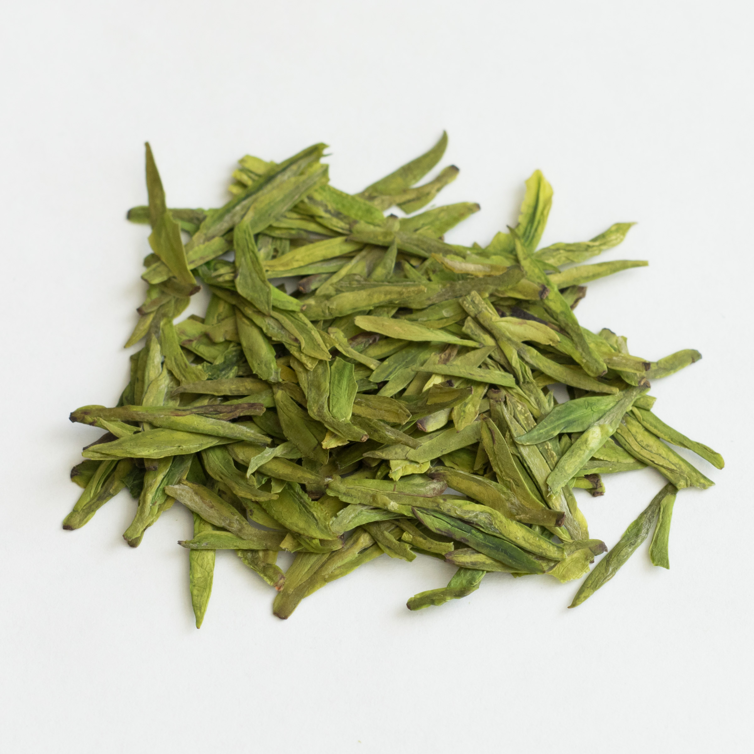 Pre-Qingming 2017 Longjing green tea, grown in Zhejiang, China.